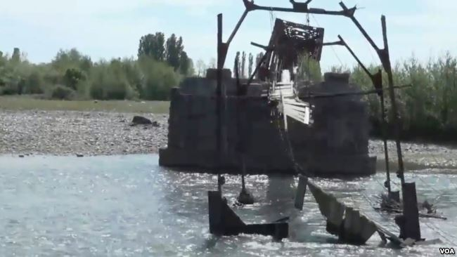 A bridge over the Enguri River connecting the villages of Tagiloni and Shamgona on Abkhazia's boundary with the rest of Georgia was destroyed by the Russian troops in April 2016.